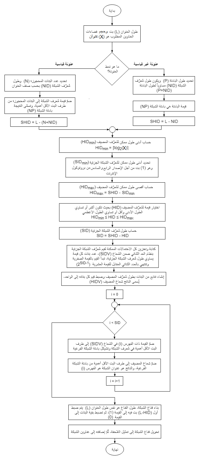 An address space subnetting algorithm, that is used when a specific size of address spaces is needed.